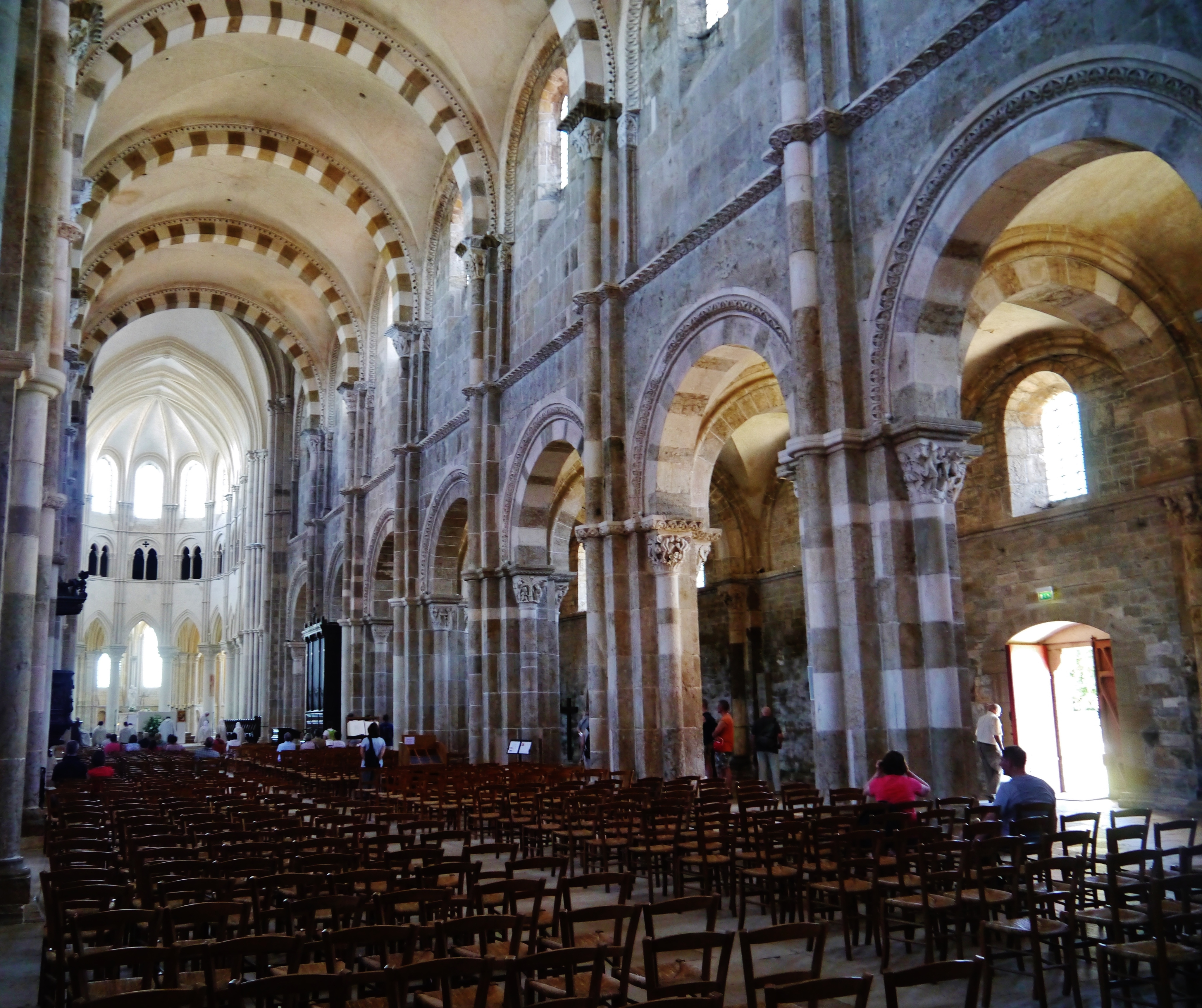 Nave of the Basilica of St. Mary Magdalene, Vézelay, Département of Yonne, Region of Burgundy (now Burgundy-Franche-Comté), France